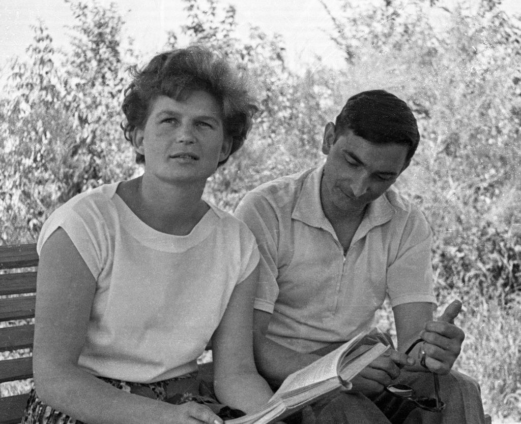 “Bykovsky and Tereshkova in pre-flight days”. Valery Bykovsky (right) and Valentina Tereshkova (left) in pre-flight days.